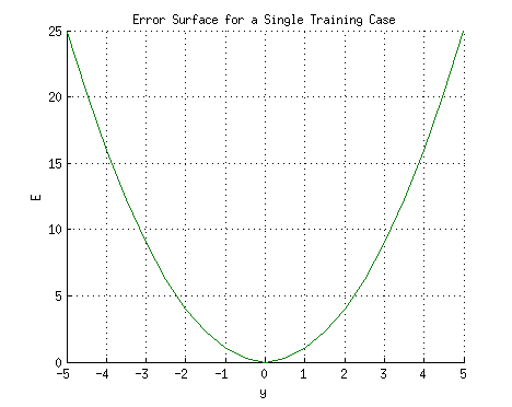 On the x-axis is the output, y, of a linear neuron and on the y-axis is the error, E, of the output compared to a target output of zero. The error is calculated by squaring the difference between the actual and target output. This demonstrates that training of a neural network can be thought of as an optimization problem where the correct output involves finding the minima of the parabola.